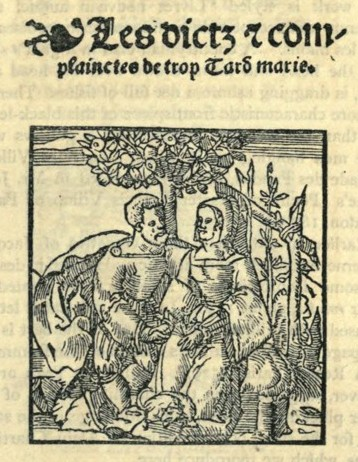 Title page of "les Dicts et complaintes du trop tard marié" (Lyon : Jacques Moderne, s.d.).